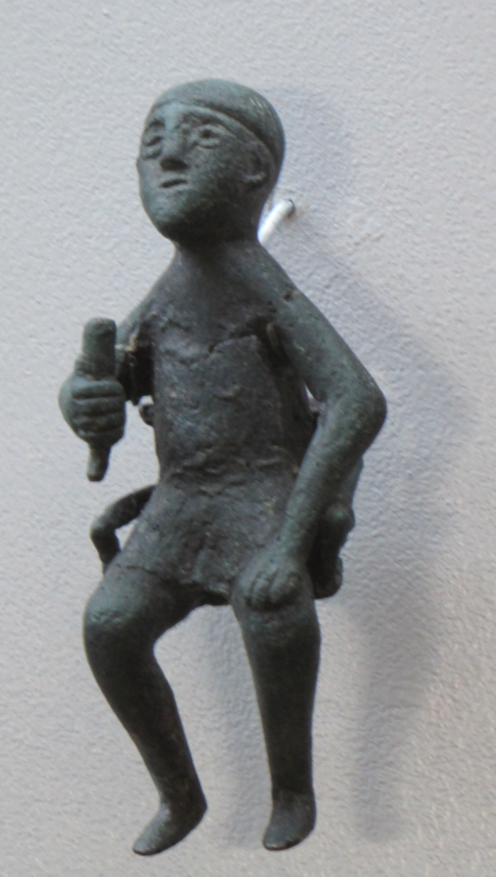 With thanks to the Georgian National Museum for allowing photography